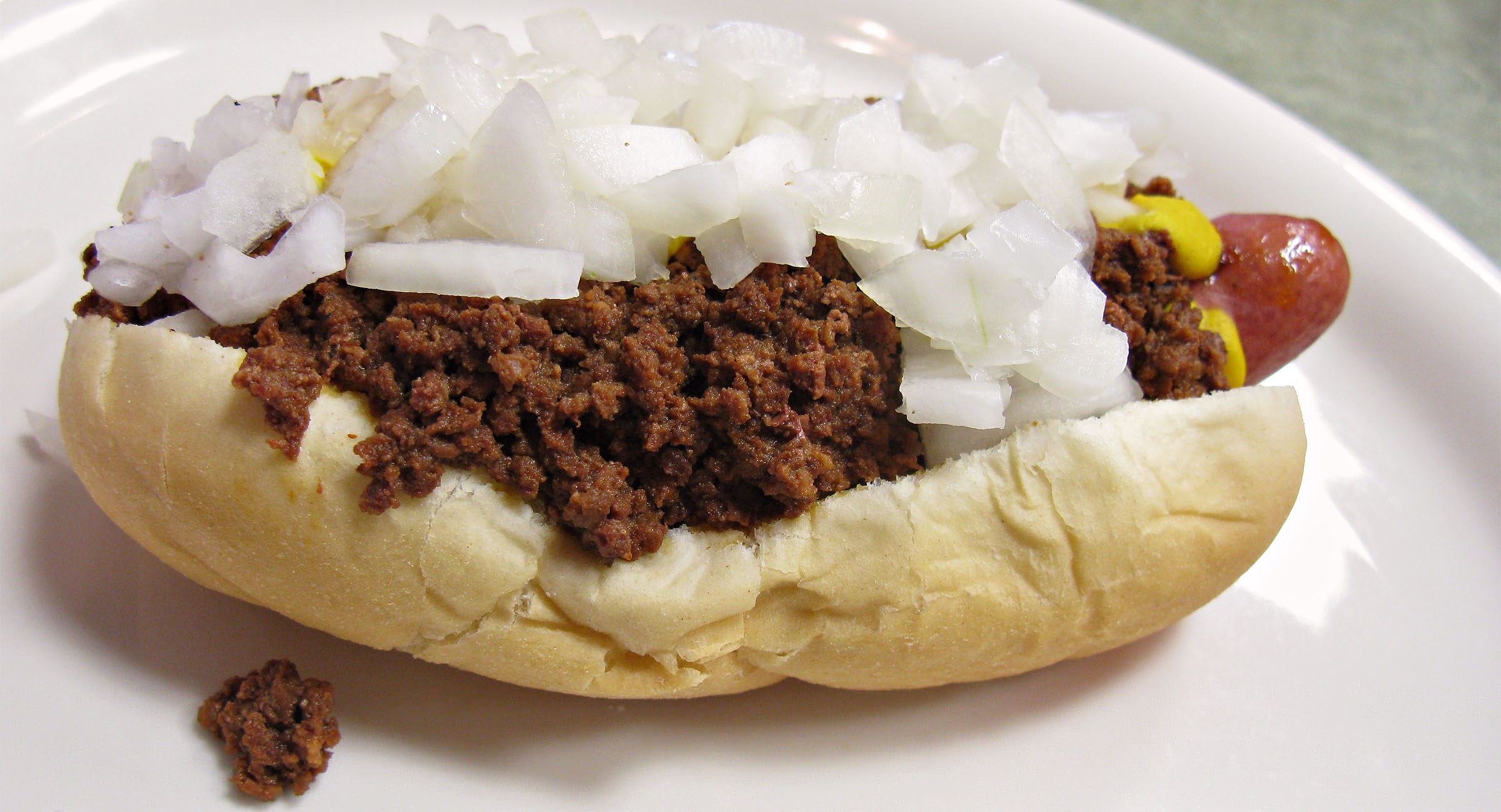 Coney dog, a type of chili dog